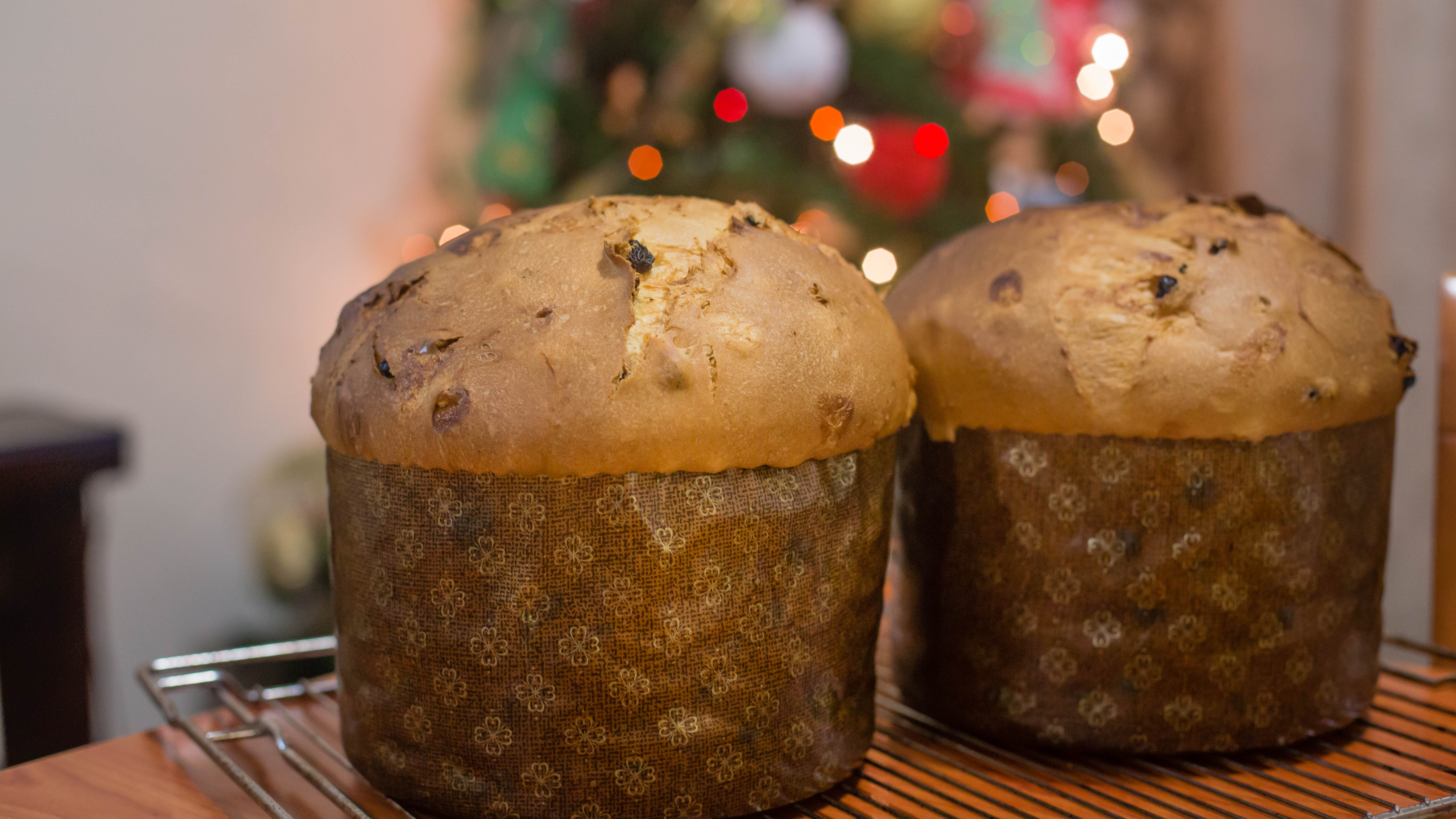 In the early 20th century, two enterprising Milanese bakers began to produce panettone in large quantities in the rest of Italy. In 1919, Angelo Motta started producing his eponymous brand of cakes. It was also Motta who revolutionised the traditional panettone by giving it its tall domed shape by making the dough rise three times, or almost 20 hours, before cooking, giving it its now-familiar light texture. The recipe was adapted shortly after by another baker, Gioacchino Alemagna, around 1925, who also gave his name to a popular brand that still exists today. The stiff competition between the two that then ensued led to industrial production of the cake-like bread. Nestlé took over the brands together in the late 1990s, but Bauli, an Italian bakery company based in Verona, has acquired Motta and Alemagna from Nestlé. As a result of the fierce competition, by the end of World War II, panettone was cheap enough for anyone and soon became the country's leading Christmas sweet. Northern Italian immigrants to Argentina and Brazil also brought their love of panettone, and panettone is enjoyed for Christmas with hot cocoa or liquor during the holiday season, which became a mainstream tradition in those countries. In some places, it replaces the King cake.